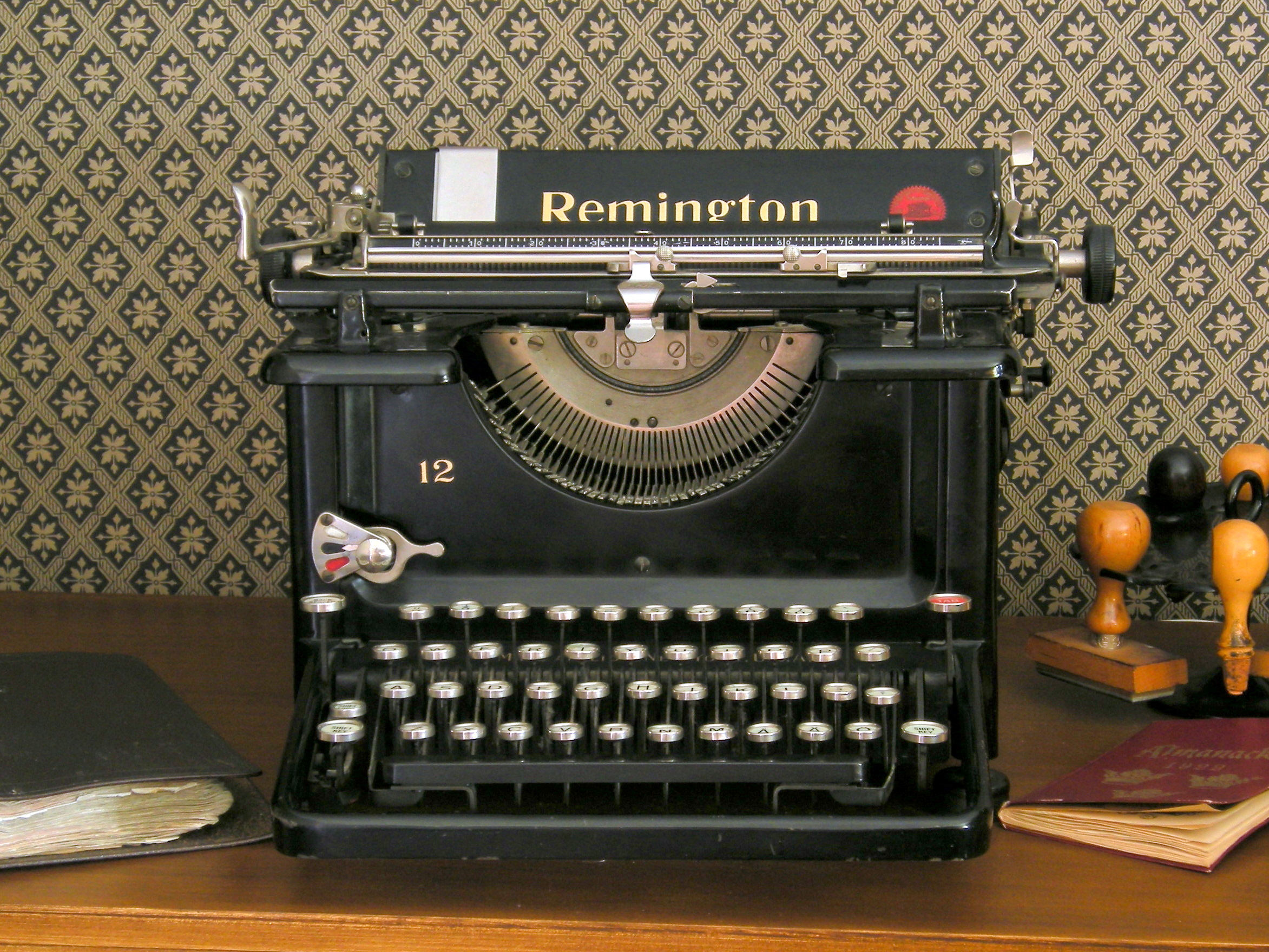 Remington typewriter. Clas Ohlson museum in Insjön near Leksand in Dalarna